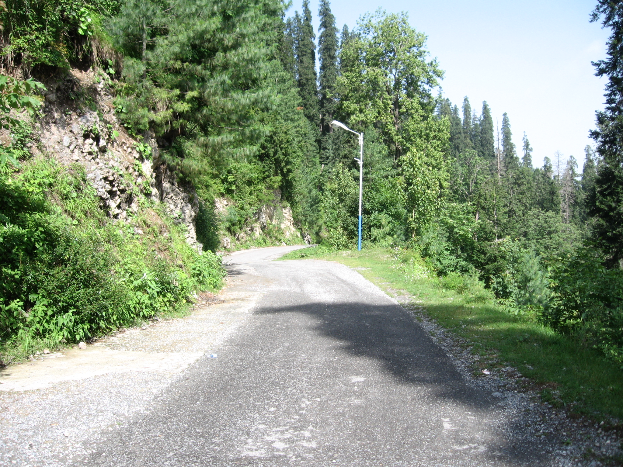 A view of Nathiagali town, Pakistan